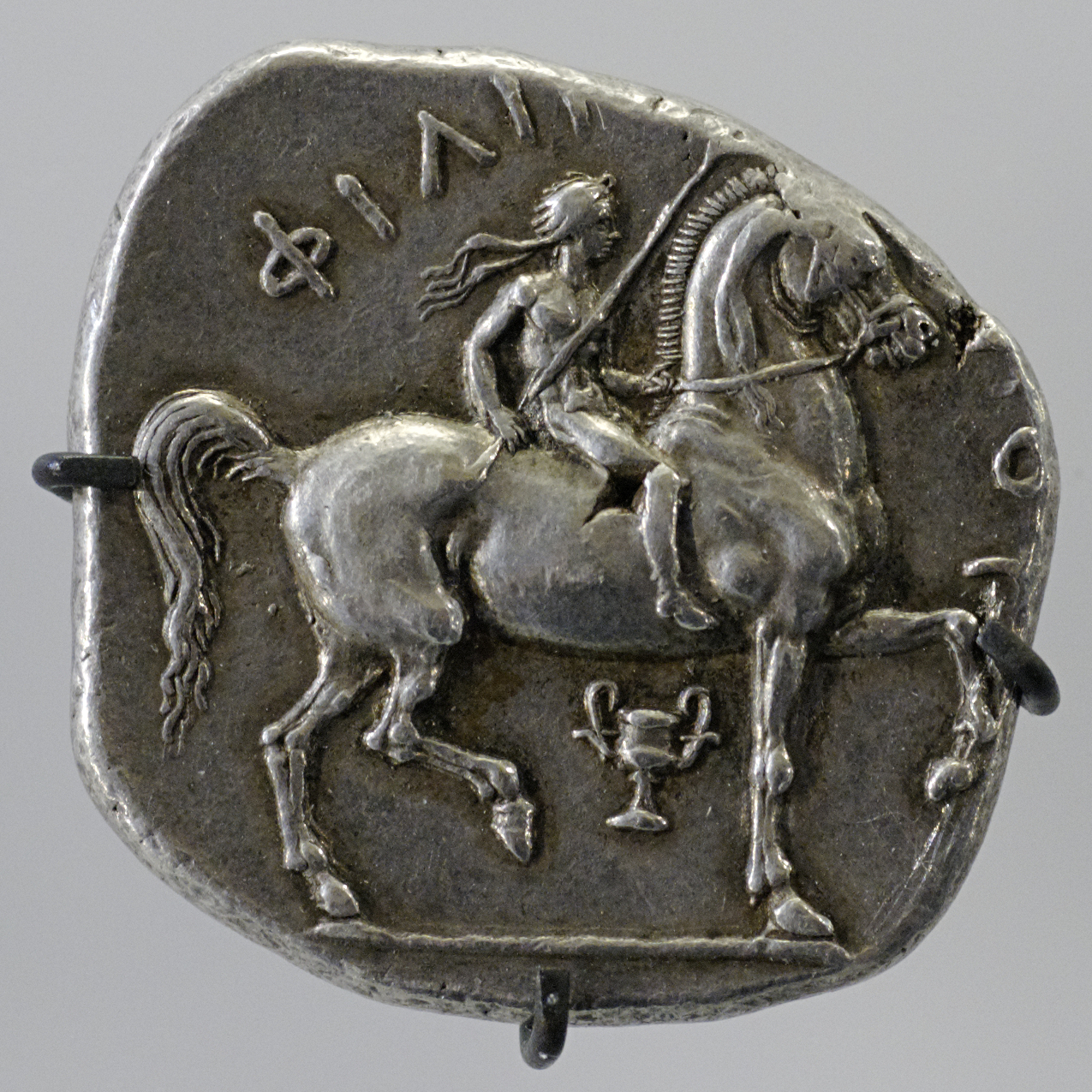 Youth on horseback right, holding a spear; kantharos below horse. Obverse of a silver tetradrachm minted in Pella during the reign of Philip II of Macedon.